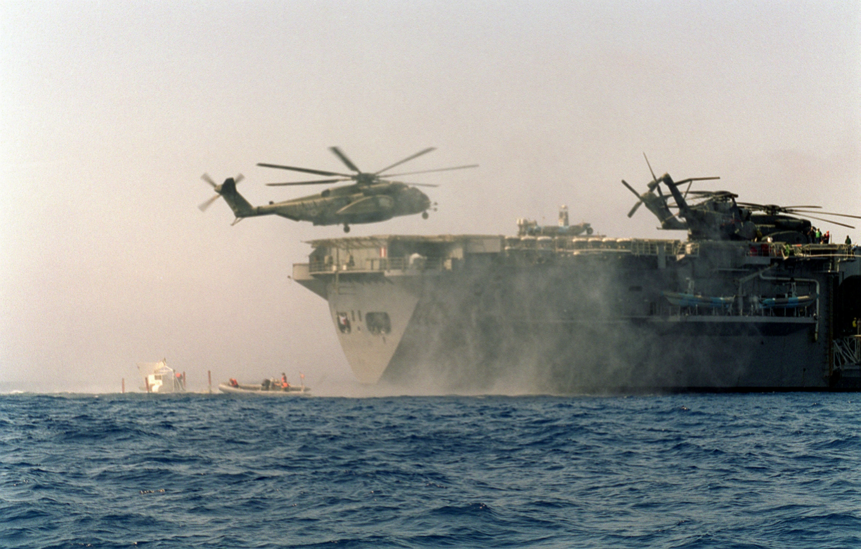 A U.S. Navy Sikorsky MH-53E Sea Dragon lands on USS Inchon (MCS-12) as it patrols the Adriatic Sea in support of "Operation Shining Hope", a NATO humanitarian relief effort in conjunction with civilian relief agencies for people in the Kosovo.